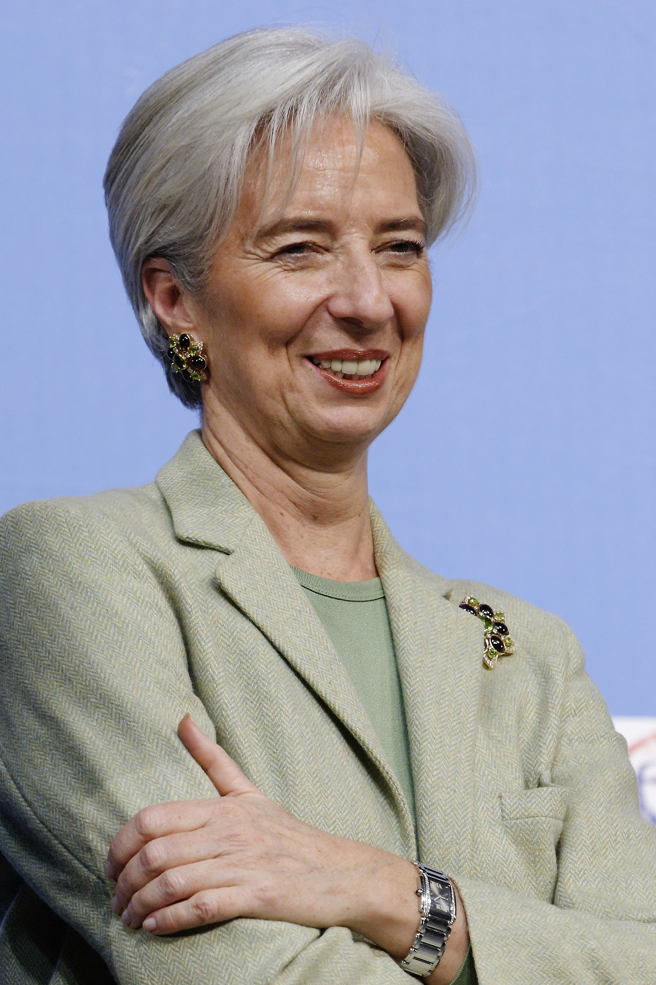 Christine Lagarde at a UMP rally for the 2010 French regional elections campaign in Issy-les-Moulineaux.